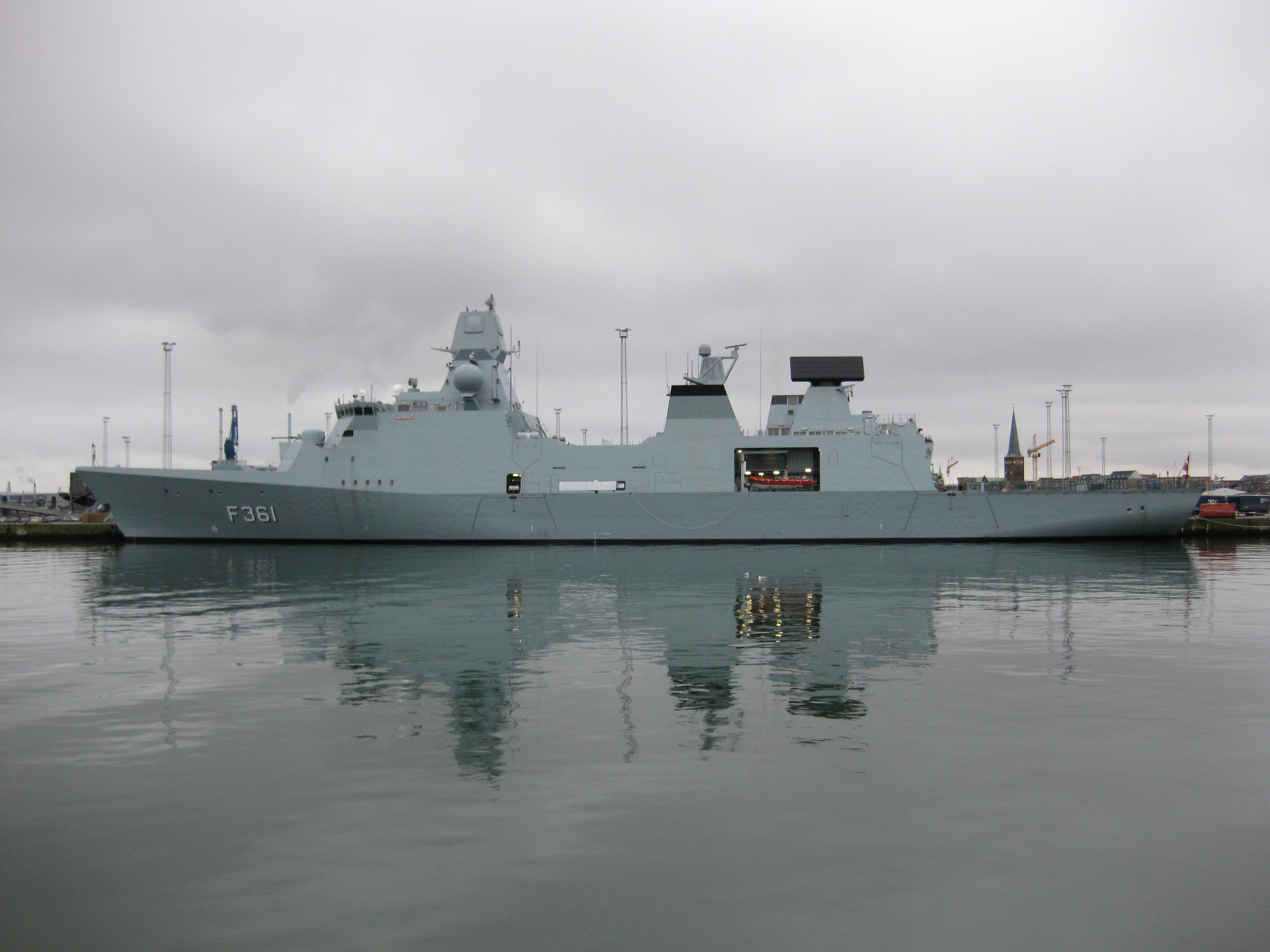 Iver Huitfeldt during a port visit in Århus